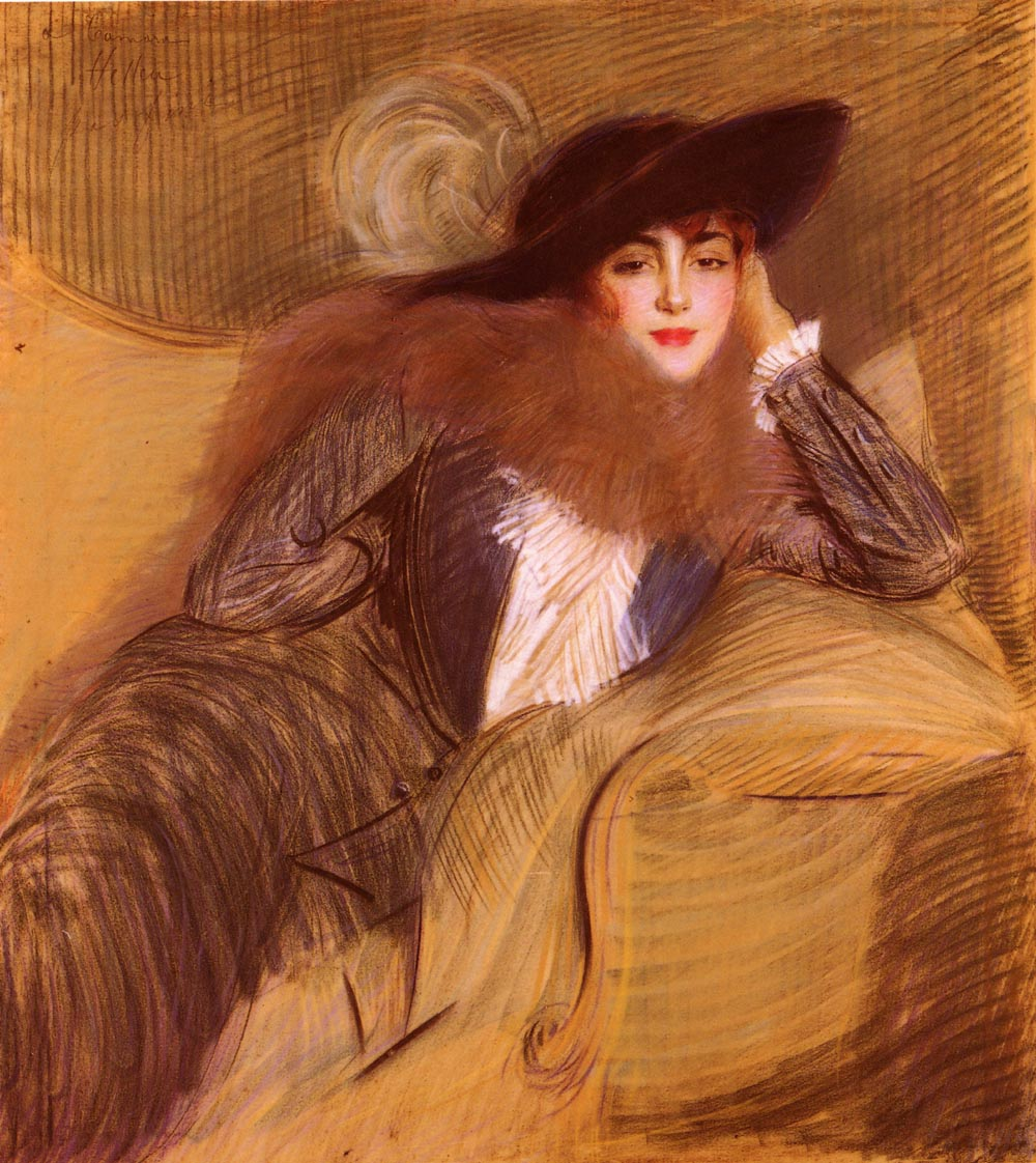 Paul Helleu's art